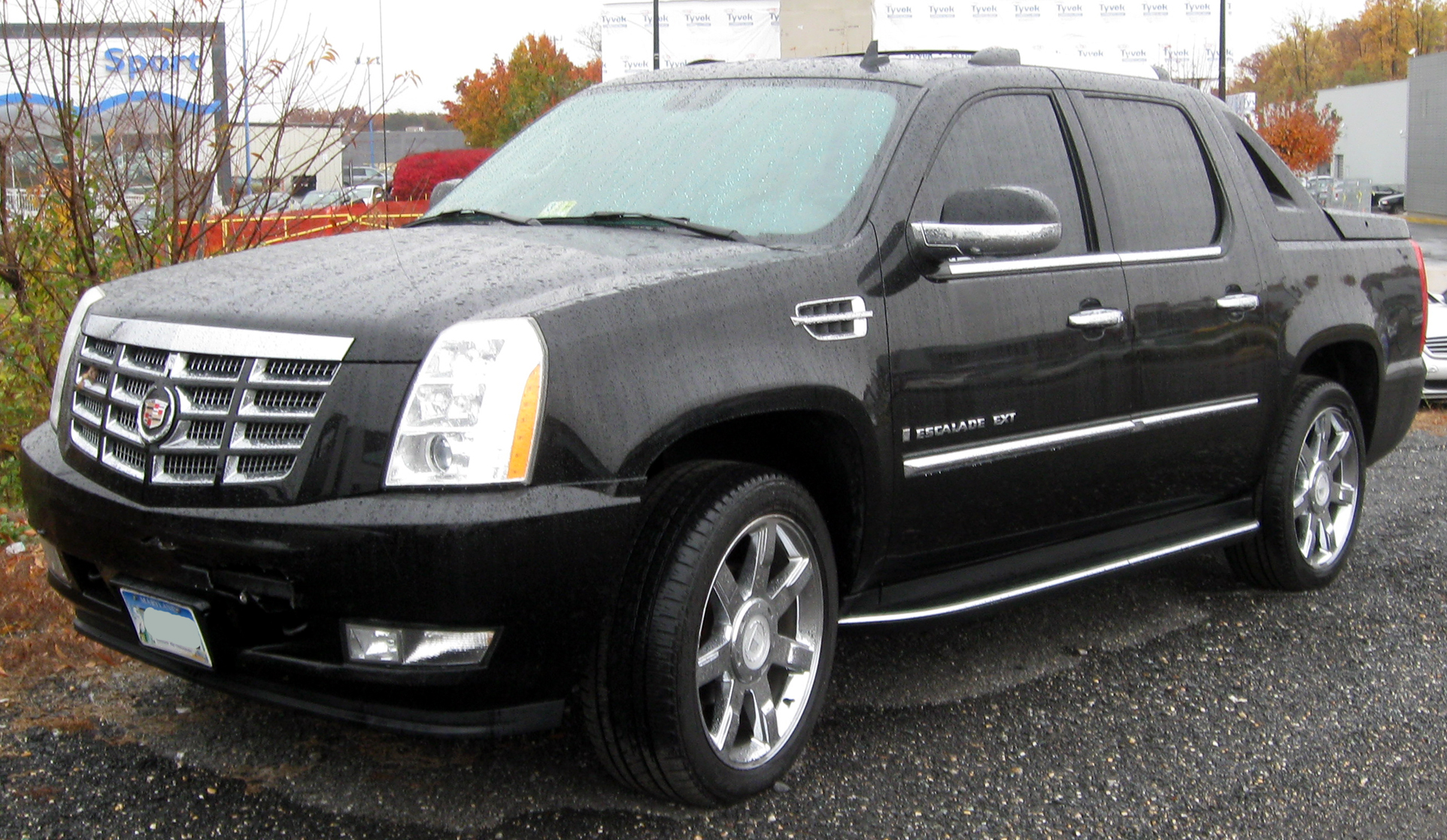 2007-2009 Cadillac Escalade EXT photographed in Silver Spring, Maryland, USA.